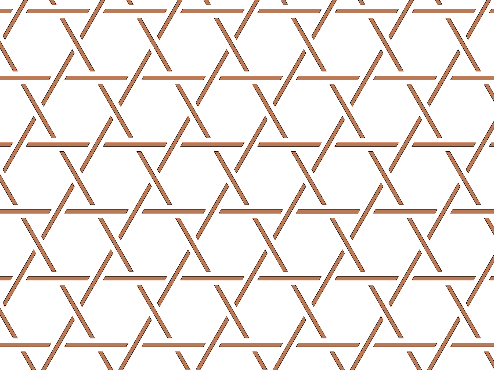 Kagome-ami trihexagonal tiling used in Japanese plaiting.